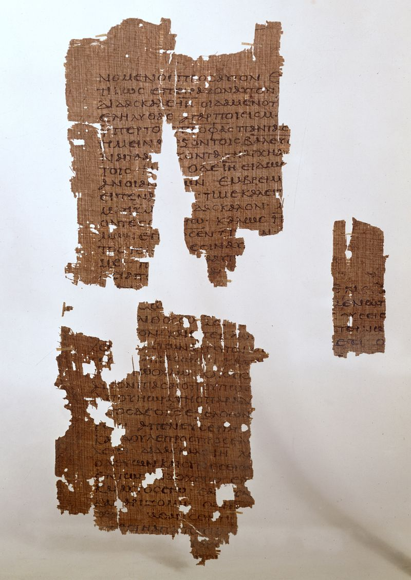 Fragments of the Egerton Gospel. British Library, Egerton Papyrus 2 (P. Egerton 2; P. Lond. Christ. 1).